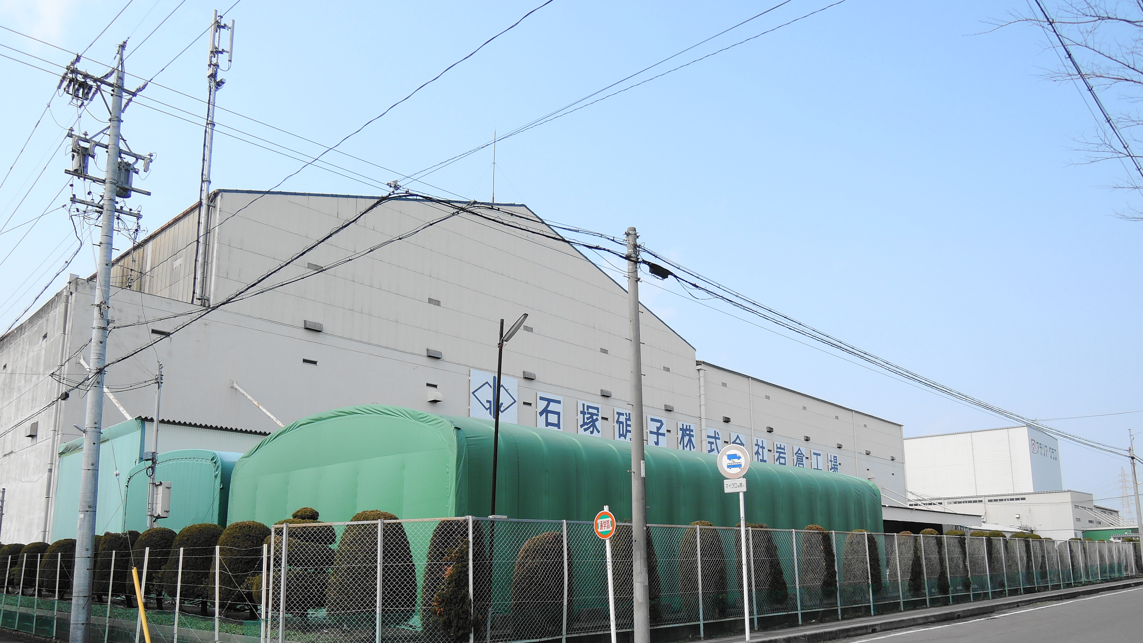 Headquarters ofIshizuka Glass Co., Ltd. ,Aichi prefecture,Japan